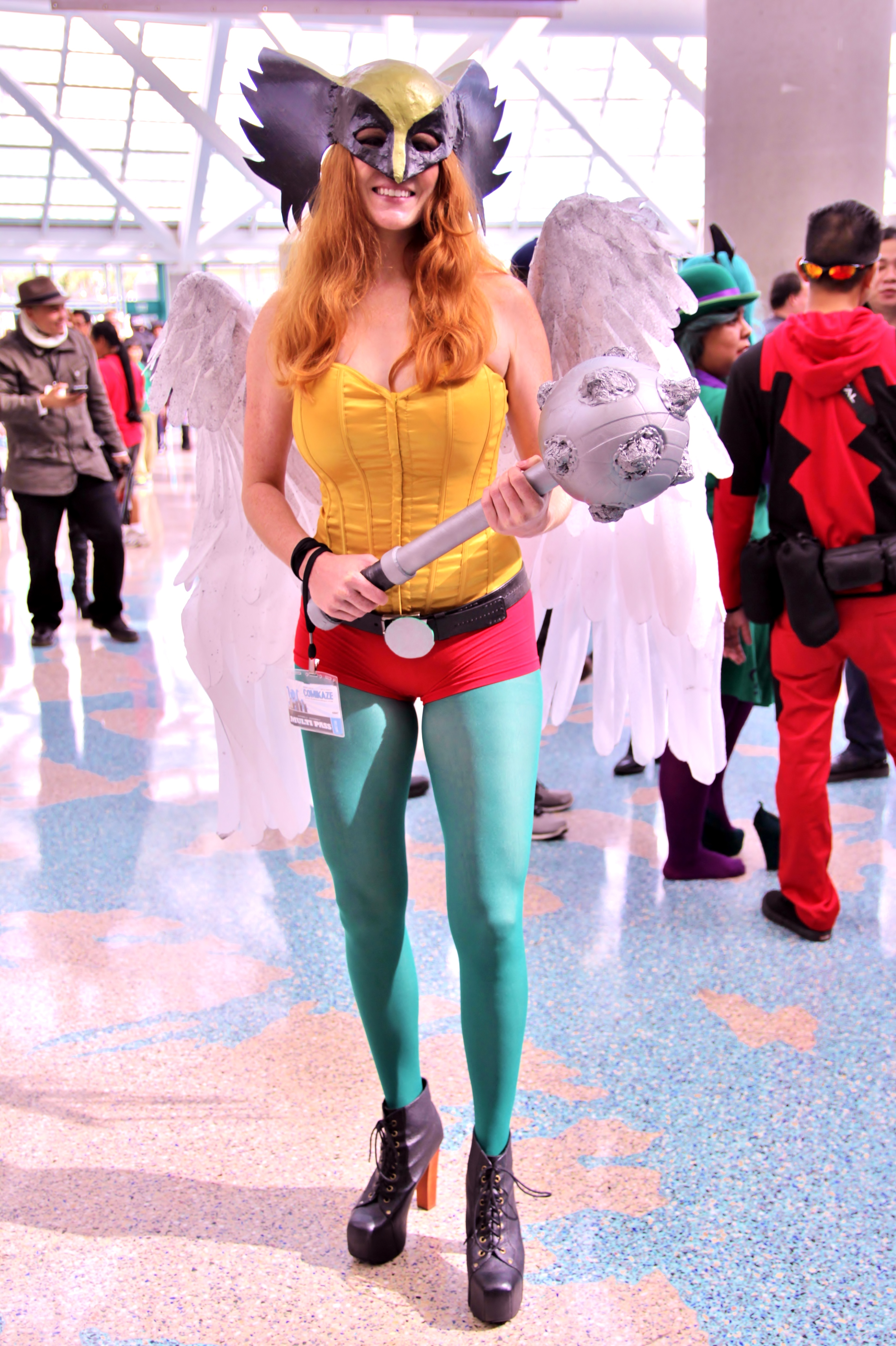 Cosplay of Hawk Girl at Stan Lee's Comikaze 2014.